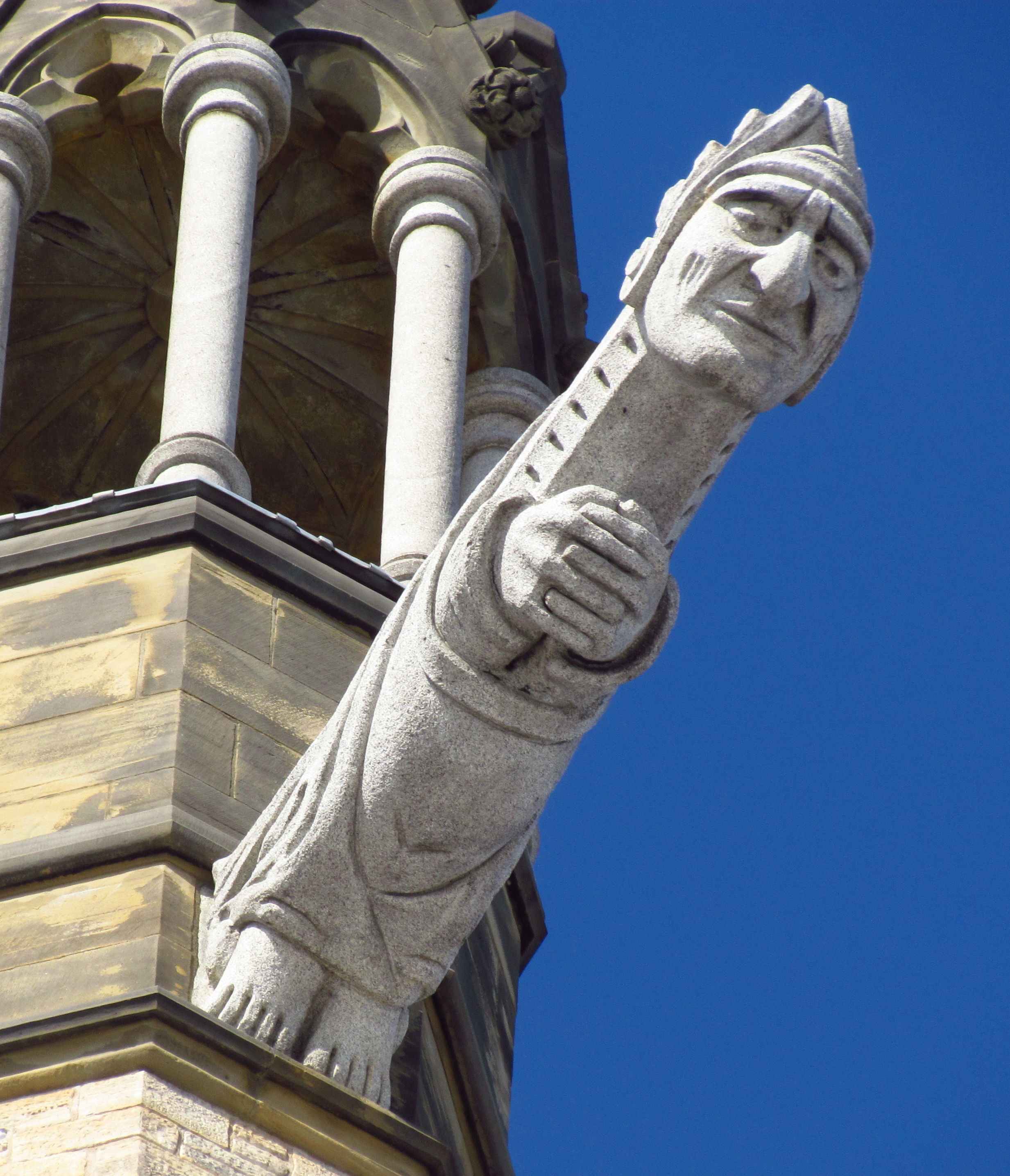 Grotesque on south-east corner of Peace Tower, Centre Block, Ottawa, Ontario, Canada